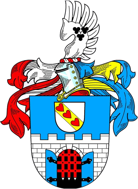 Jirkov CoA CZ